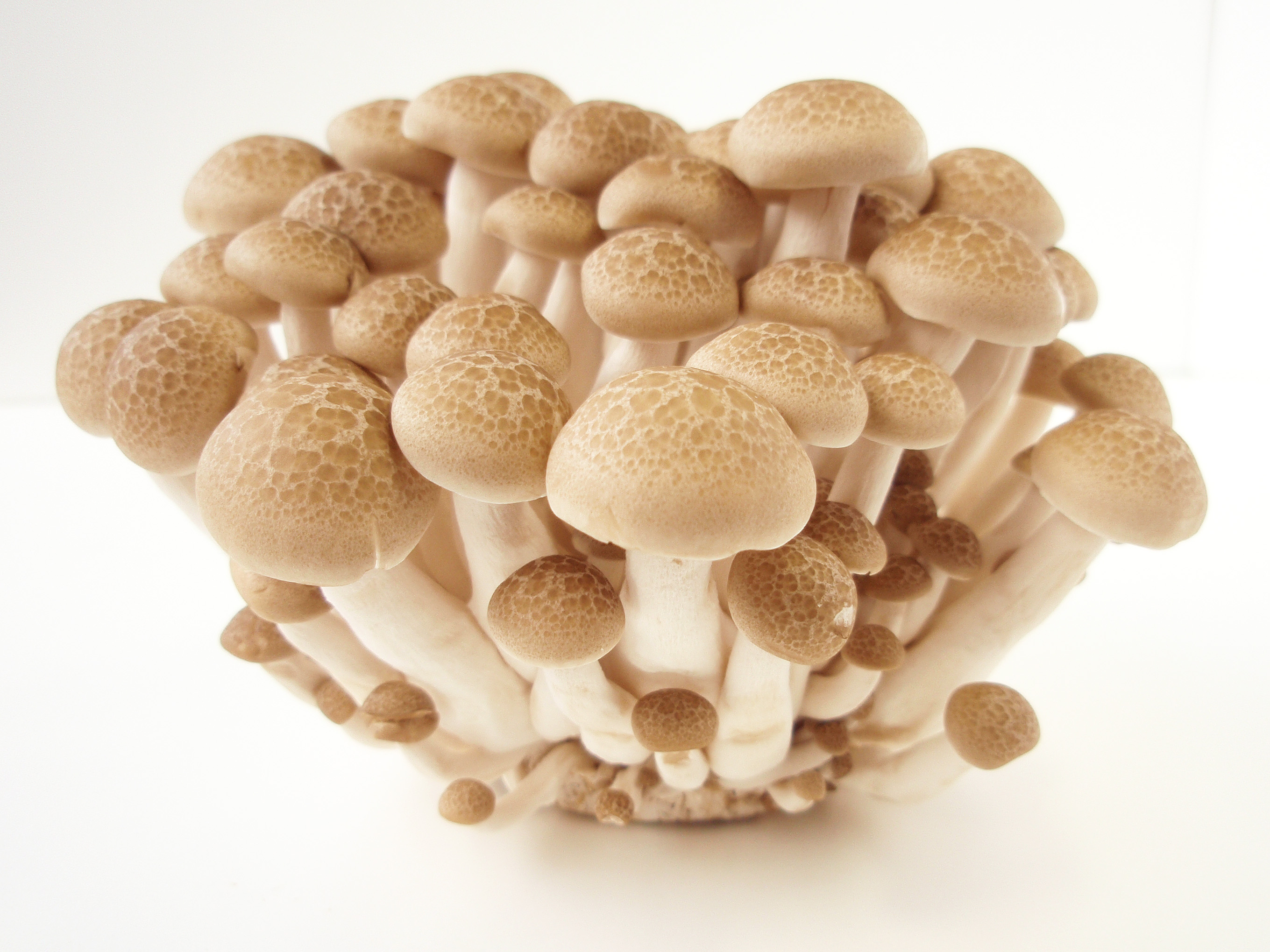 Hypsizygus marmoreus (cultivated) in Japan.